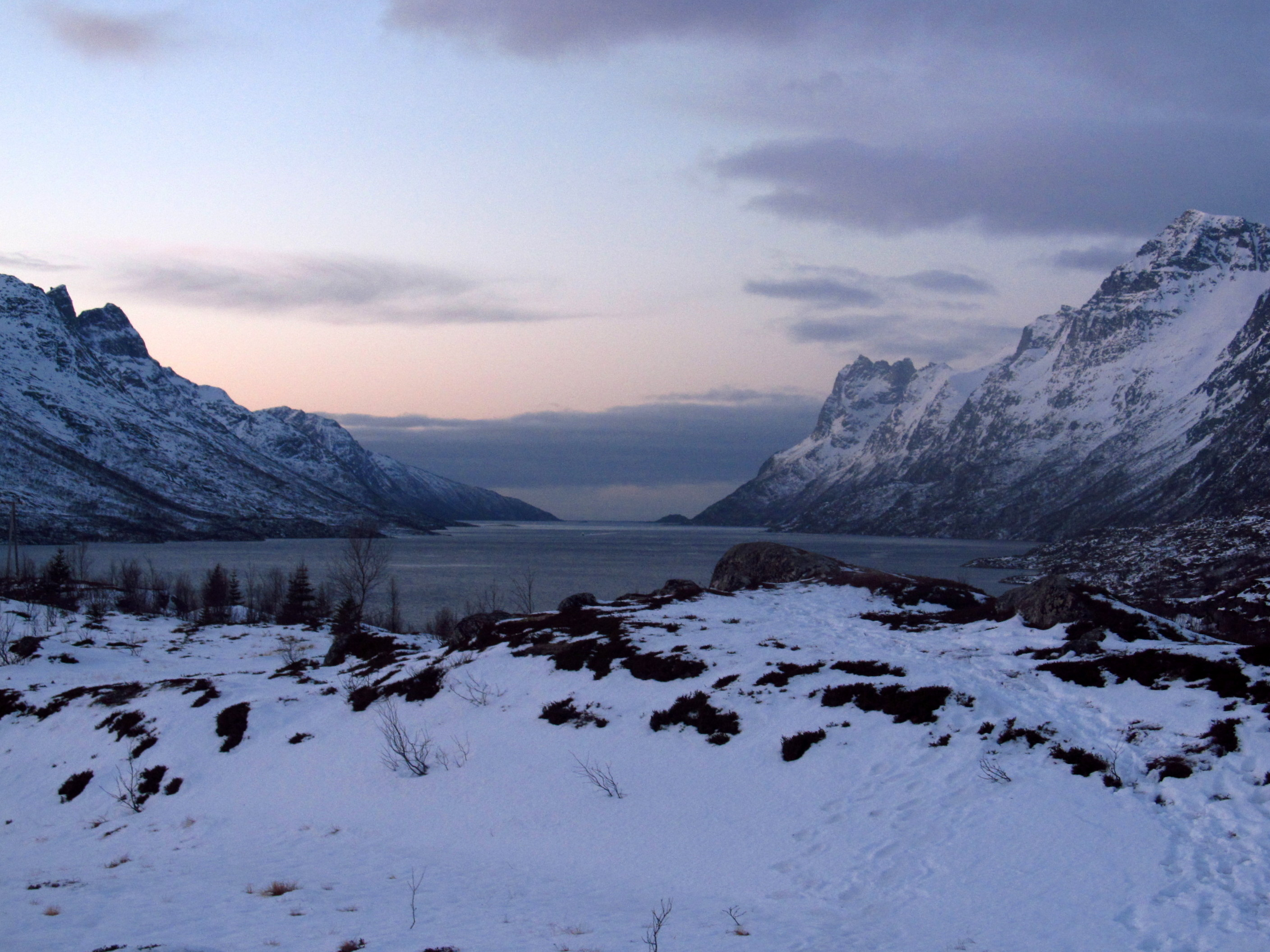 View of Ersfjord, up behind the village of Ersfjordbotn. Island of Kvaløya, Tromsø municipality, Norway. December, 2012.